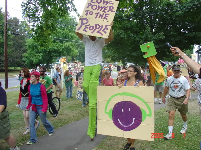 Parade at the WXOJ-LP (Valley Free Radio) barnraising / Grassroots Radio Conference in Florence, Massachusetts, 2005-08-07.